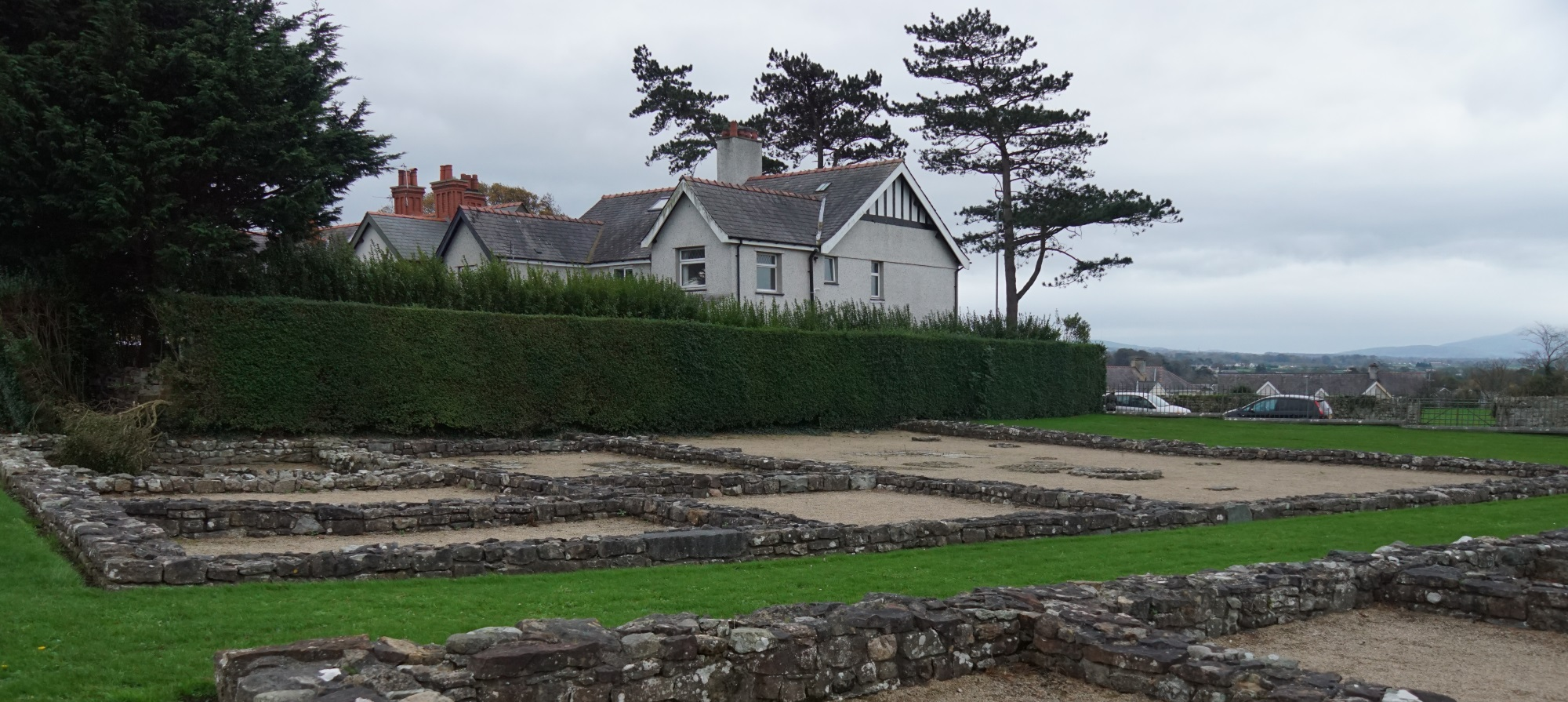 Segontium Roman Fort, Caernarfon, Wales. Principia. With in the back on the left the strongroom below the sacellum, and on the right the courtyard with well.